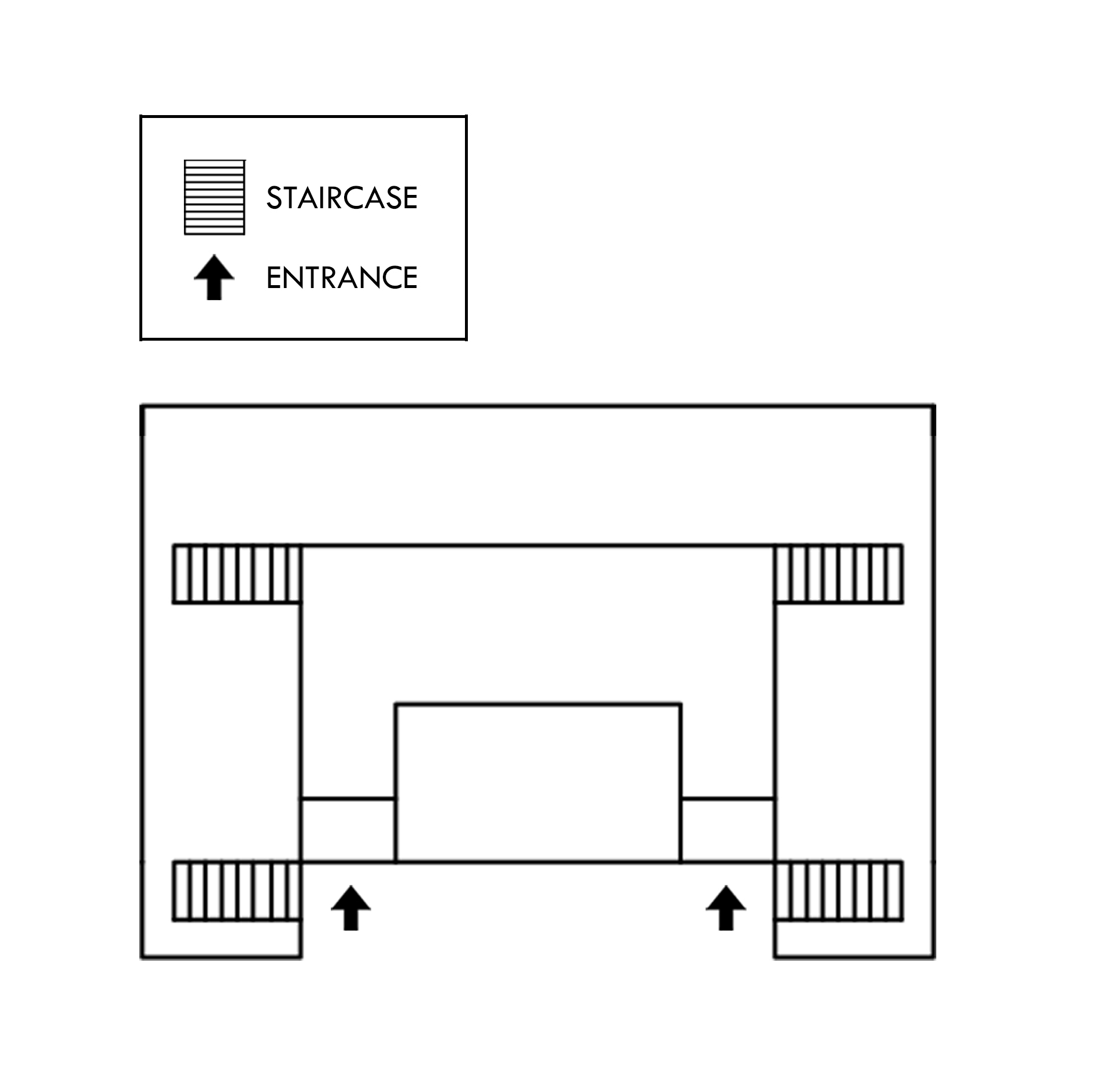 Layout Plan for Marble Jade Mansion